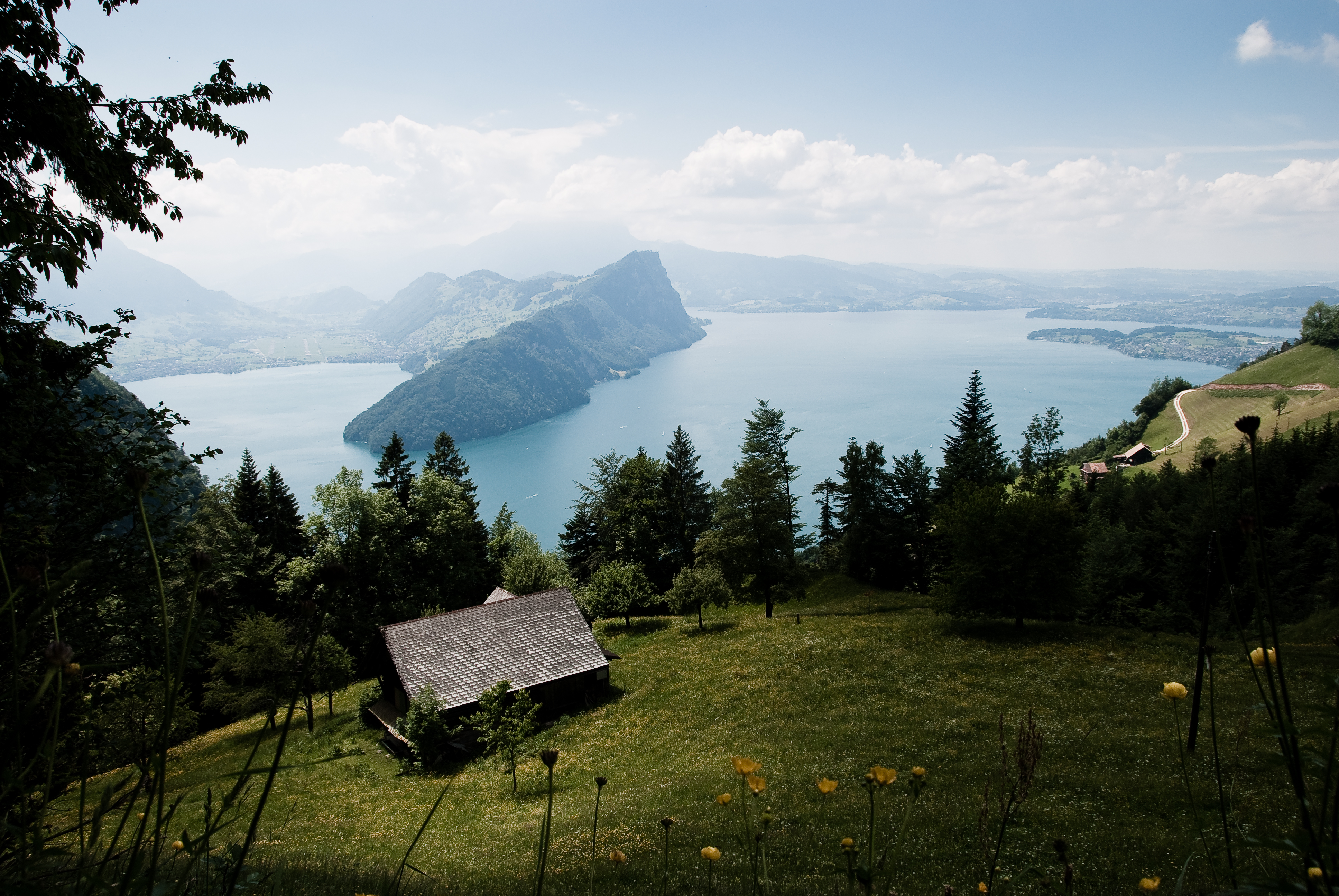 Lake Lucerne from the Rigi